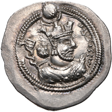 Coin of the Sasanian king Balash, Kirman mint.